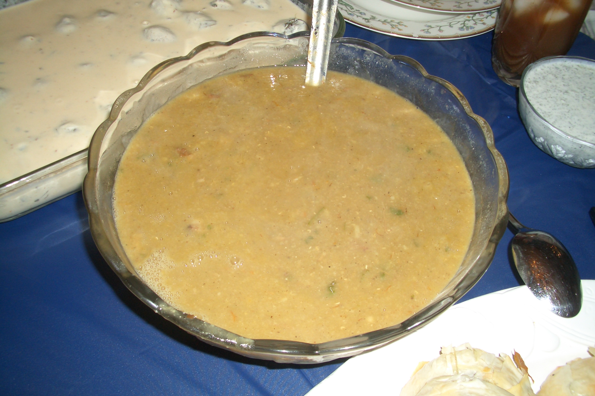 Middle Eastern lentil soup